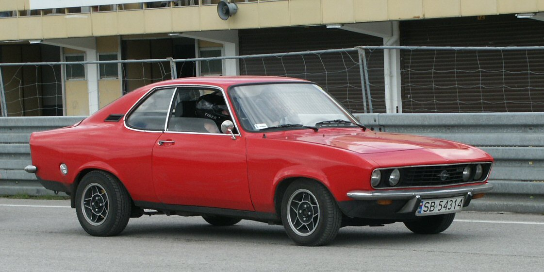 Opel Manta A, in Kielce Race Track, Poland